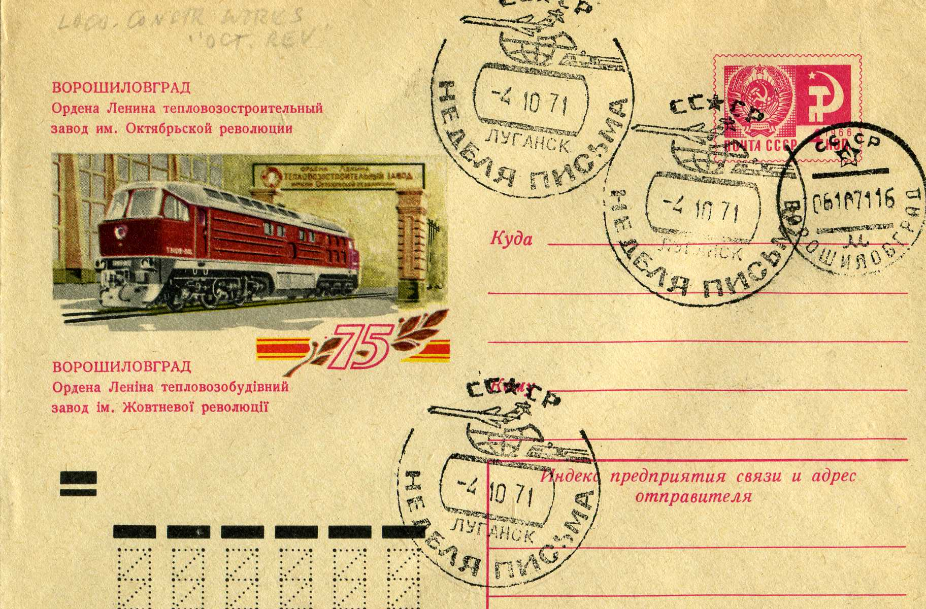 Prepaid Soviet envelope of 4. October 1971, bears the dual name postmarks of Lugansk and Voroshilovgrad, with picture of the Lokomotive factory named after October Revolution (now Luhanskteplovoz).